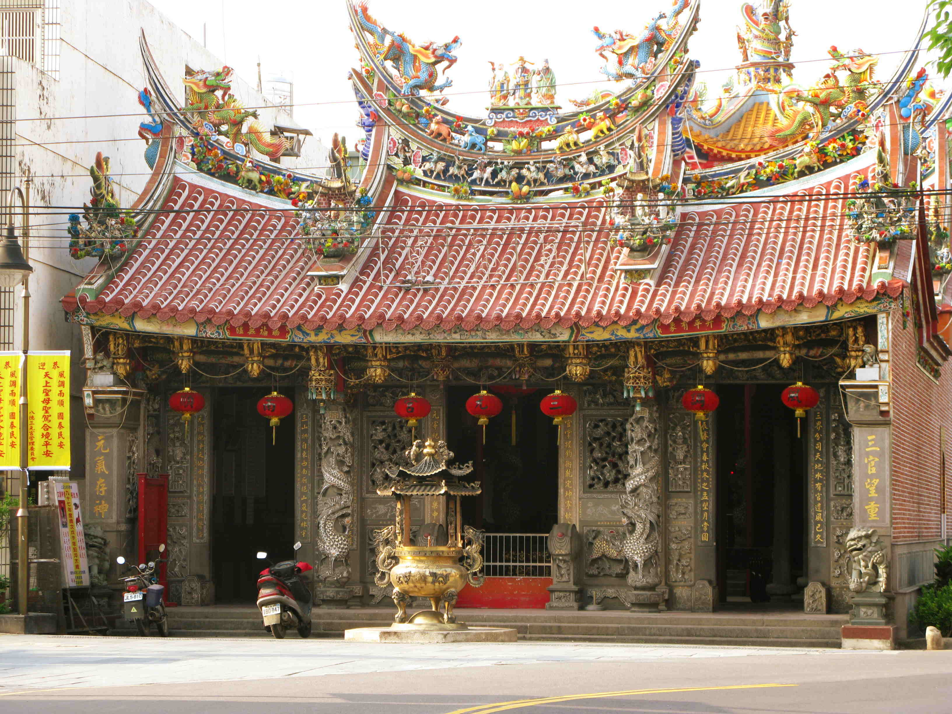 Bade City Sanyuan gong,Taiwan.Bân-lâm-gú: Tâi-uân Pat-tik-tshī Sam-guân-kiong.